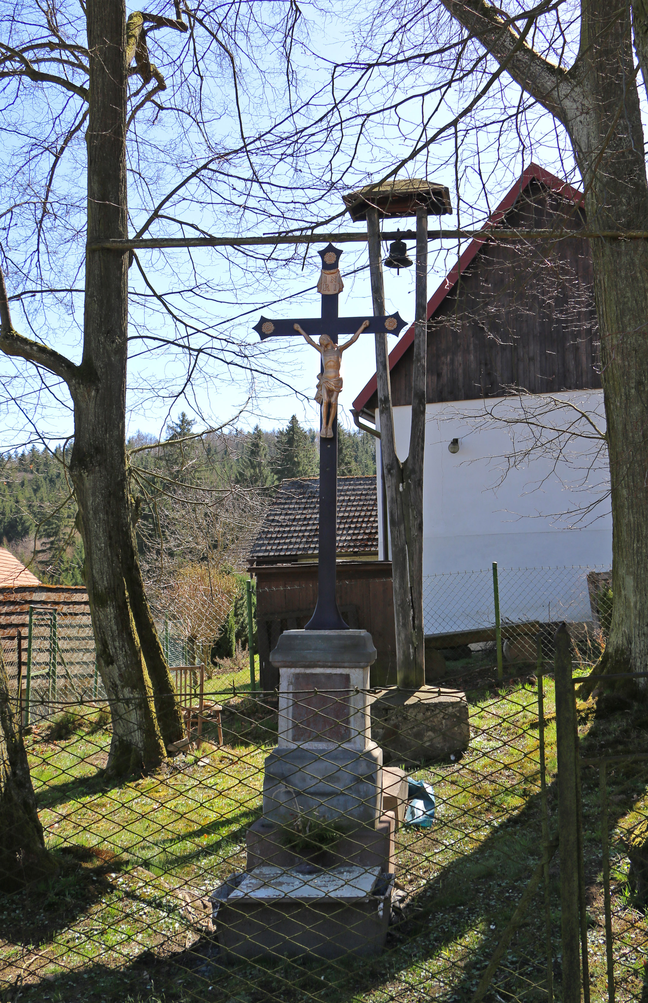 Crucifix in Vraník, part of Ledečko, Czech Republic.